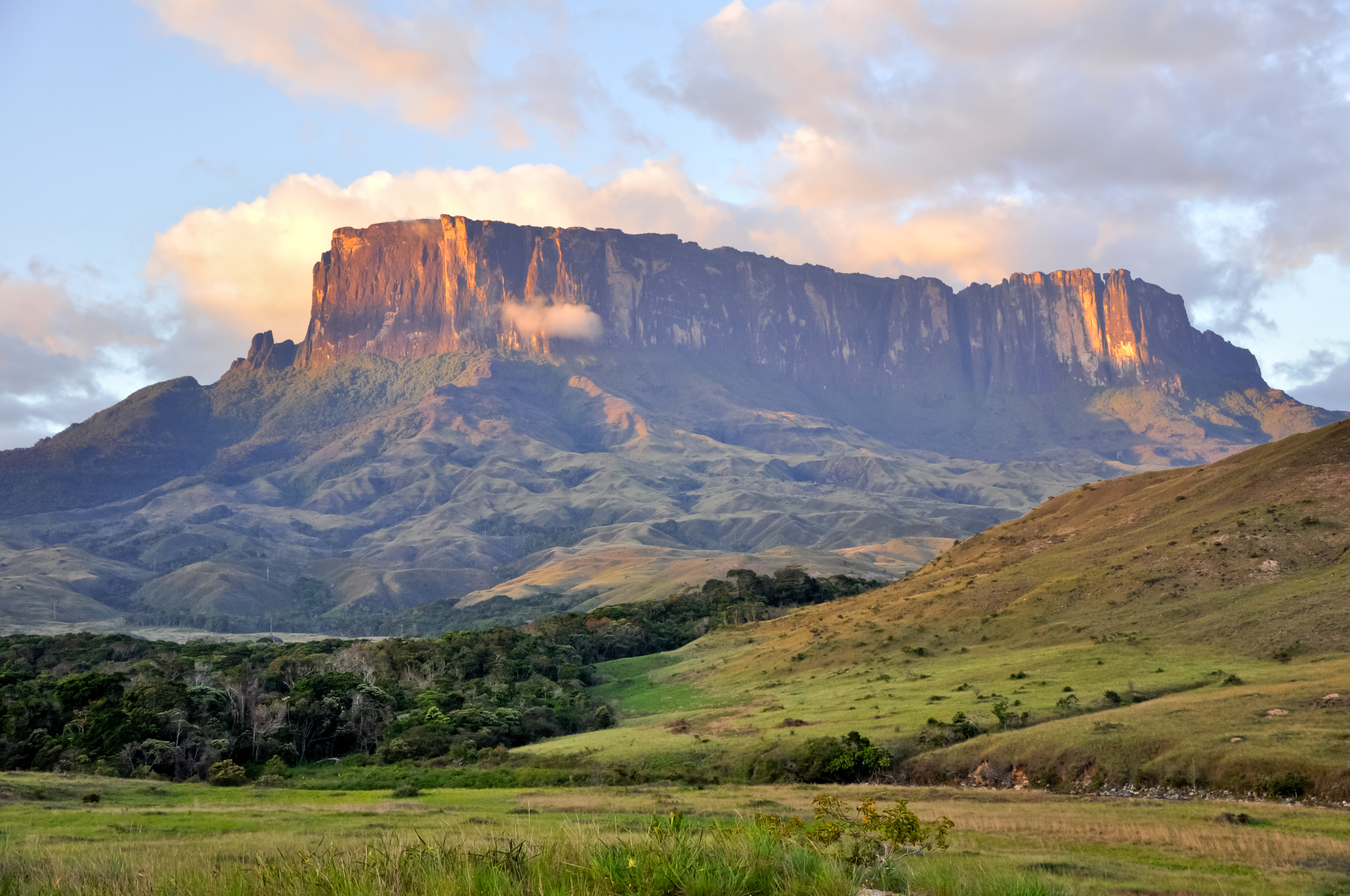 Kukenan Tepuy in Gran Sabana National Park, Venezuela. Photo taken from Tëk River Camp at 5:20 p.m. Tepuy height: 2700-2800 mts.